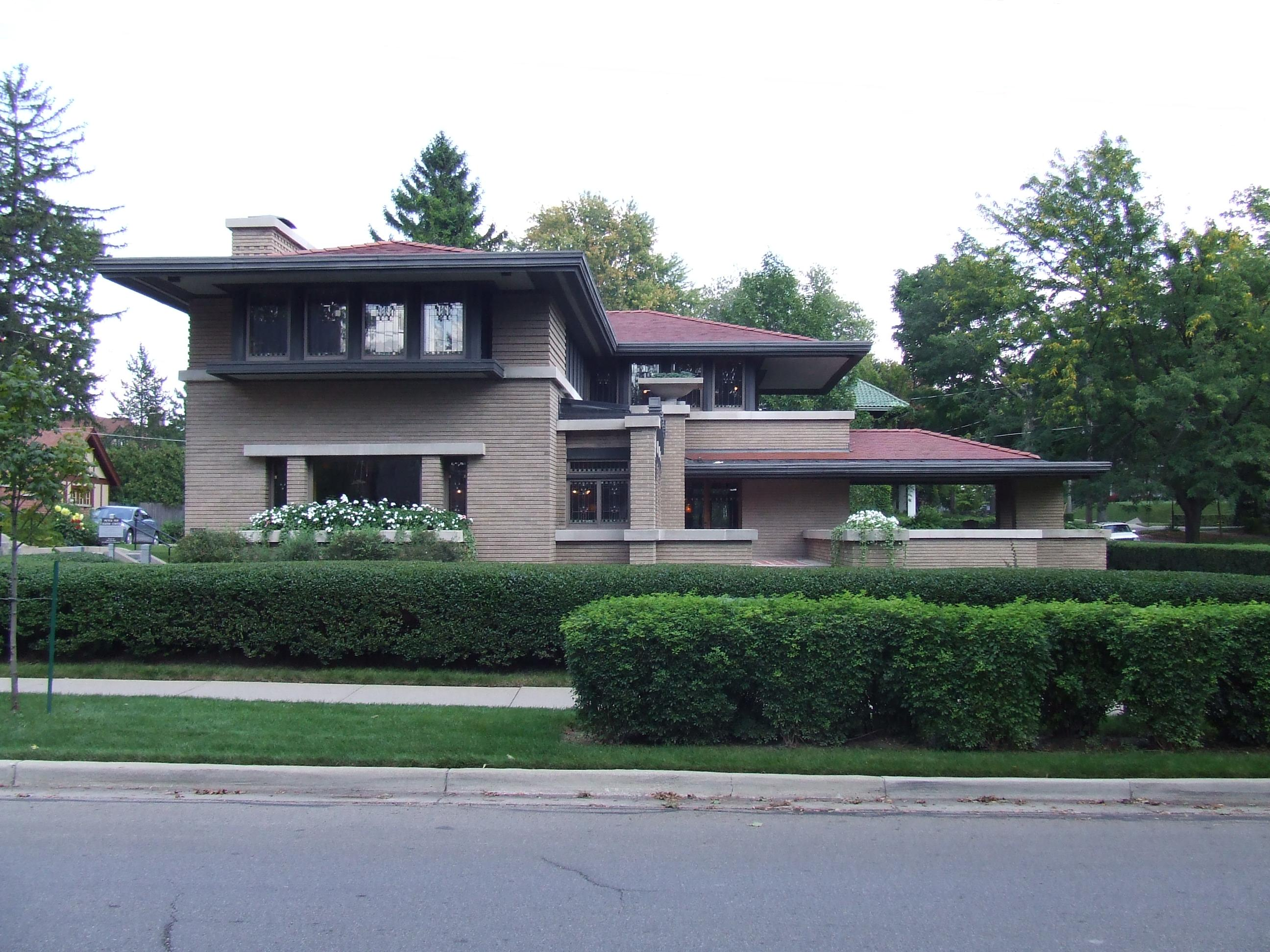 Meyer May House, Grand Rapids, Michigan was designed by Frank Lloyd Wright in 1908-1909.